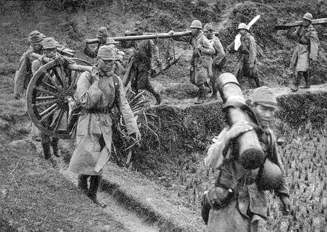 A Type 41 75-mm Mountain Gun of the Imperial Japanese Army, carried by its crew. Mid 1930